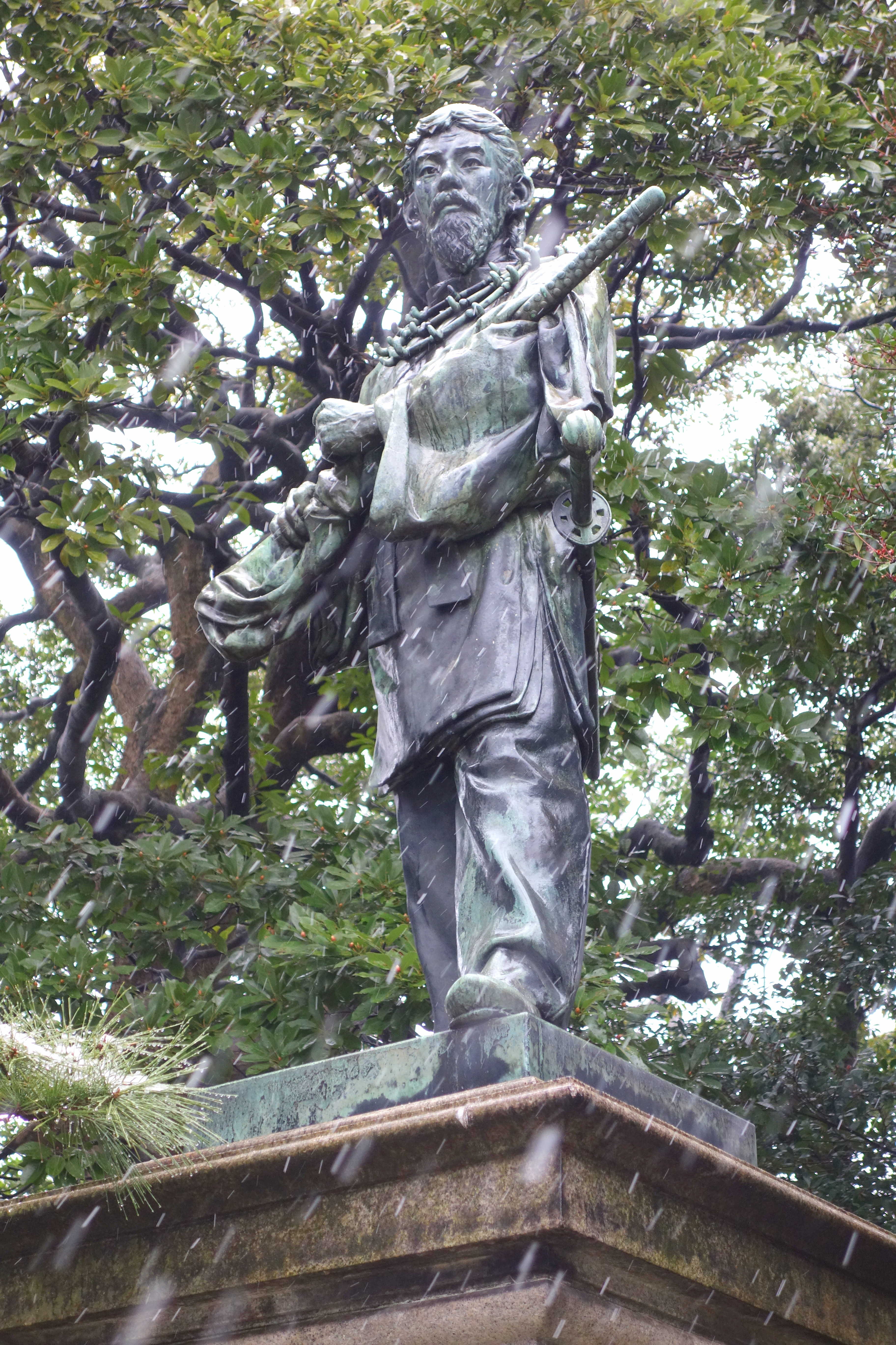 Statue of Umashimadenomikoto by Akira SANO (1865-1955), Hama-rikyū Garden, Tokyo, Japan. Dedicated in 1894.